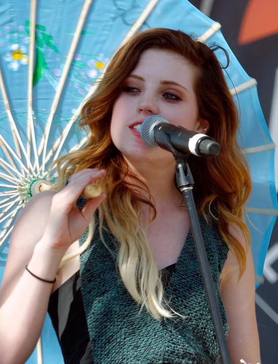 Sydney Sierota the lead vocalist of Echosmith.